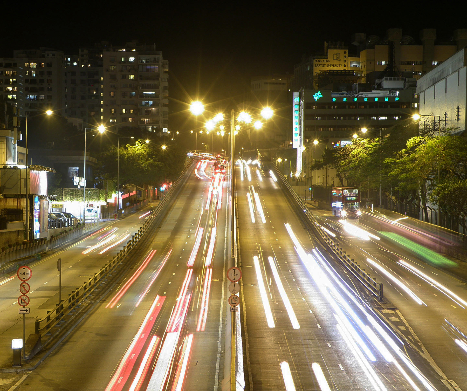 Waterloo Road in Kowloon Tong, Hong Kong.